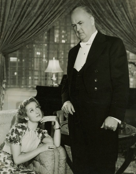 Danielle Darrieux & Charles Coleman in The Rage of Paris - publicity still (cropped)